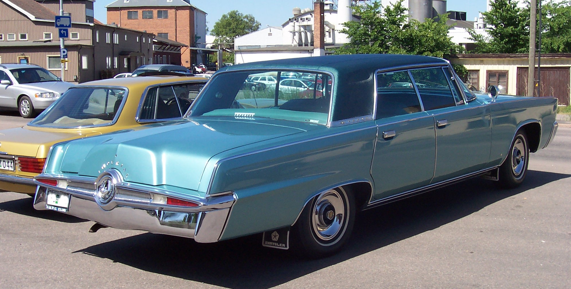 1965 Imperial Crown 4-d hard top